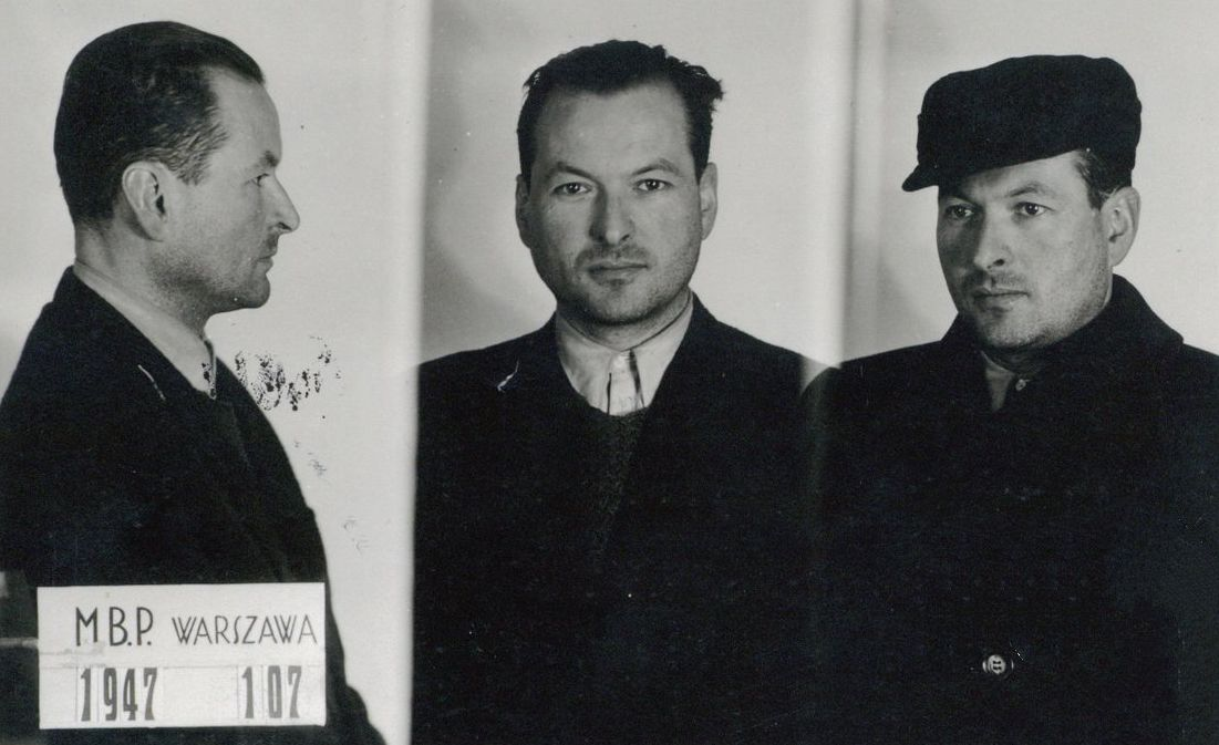 Lech Neyman (1908-1948) – Polish lawyer and politician. After WW member of Polish anticommunist underground. Arrested by communist political police, executed.